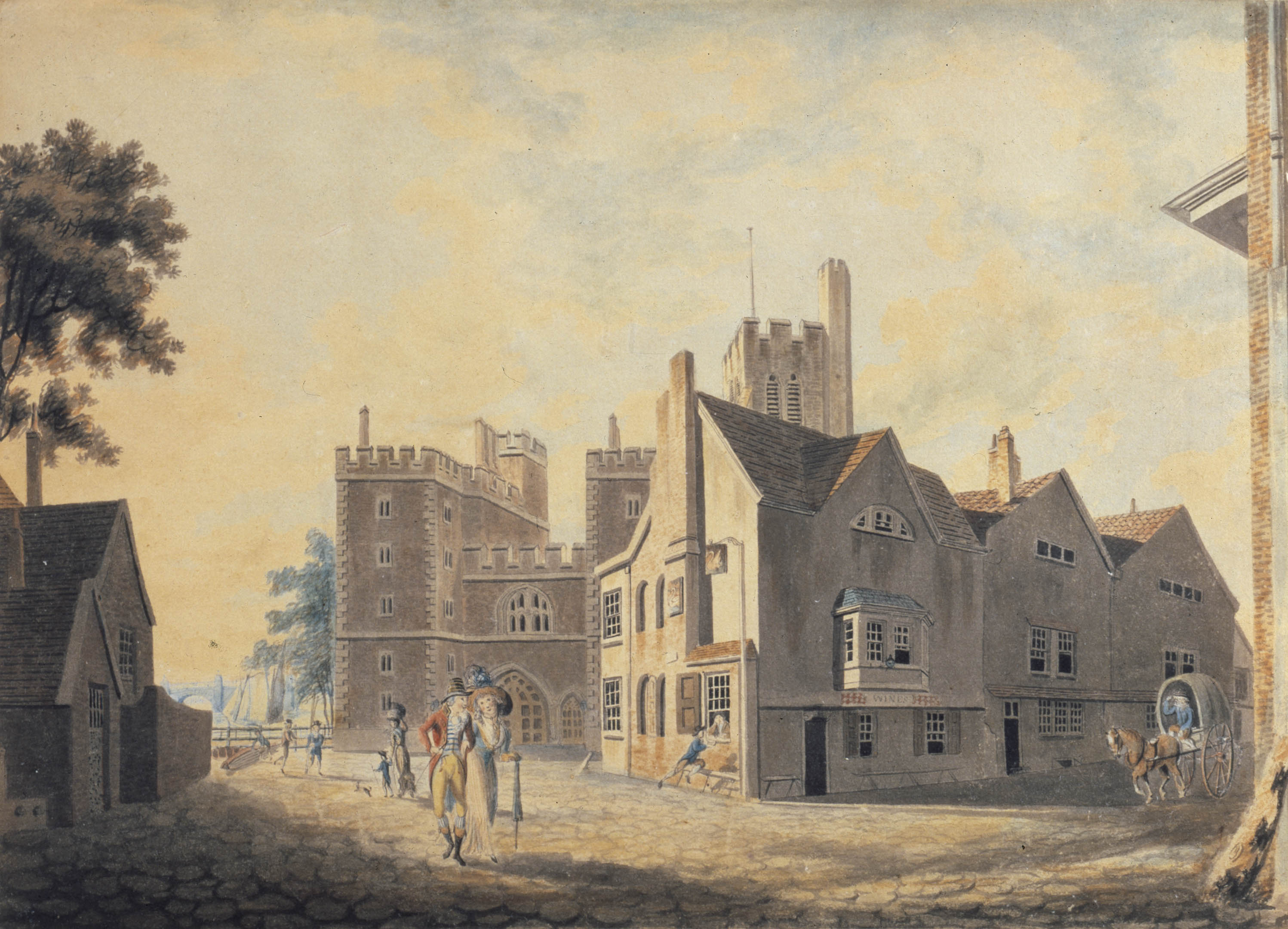 This watercolour was Turner's first to be accepted for the Royal Academy's annual exhibition in April 1790, the month he turned fifteen. The watercolour showcases Turner's progress in mastering perspective, showing several buildings at dramatically different angles.